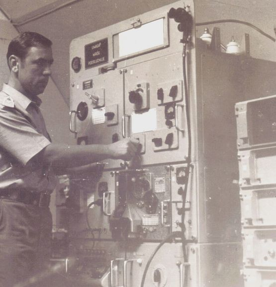 Military radio station: R-102MZ, transmitter (0.5-0.8 5 kW).